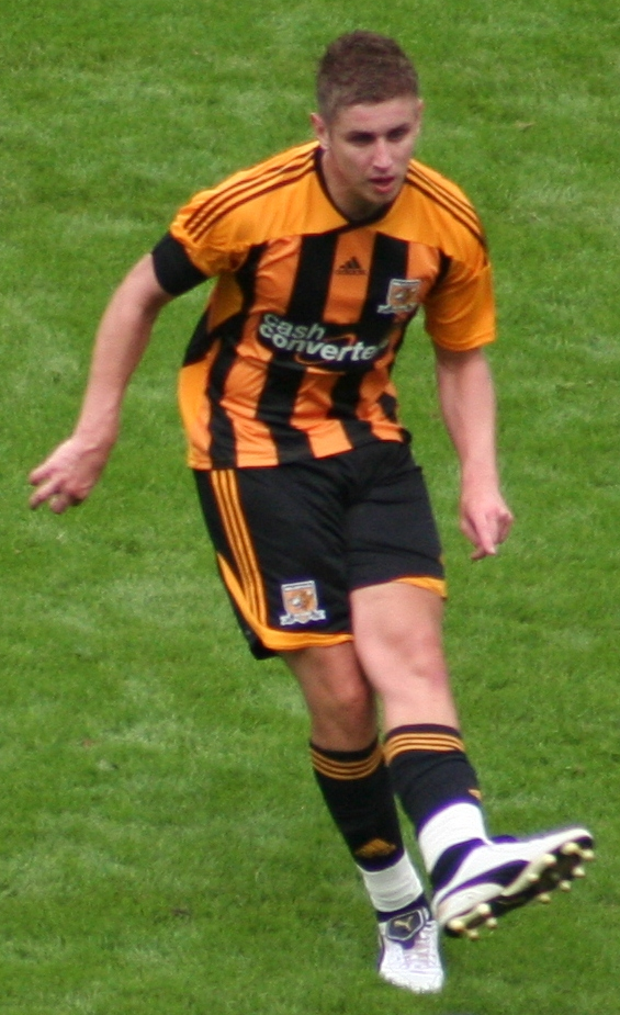 Tom Cairney. Image cropped from original at flickr.